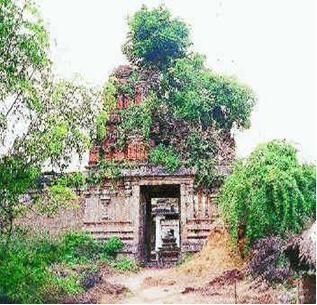 Lak_narasimhar